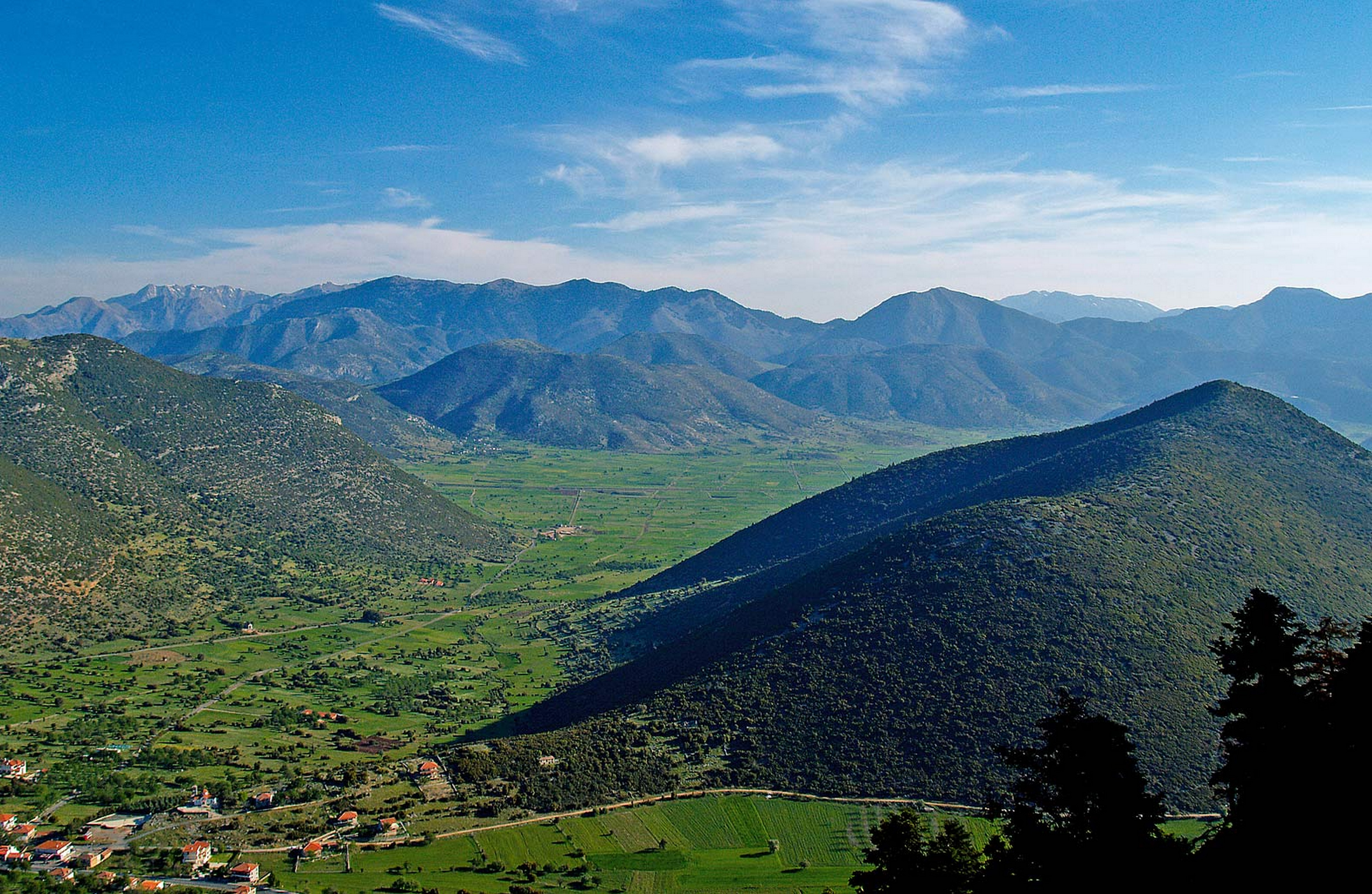 Vlaherna Plateau (λεκάνη Ορχομενός). Beyond the town begins the large geological, karstic basin